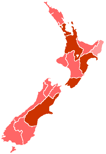 A map showing the number of confirmed cases of H1N1 in New Zealand regions.